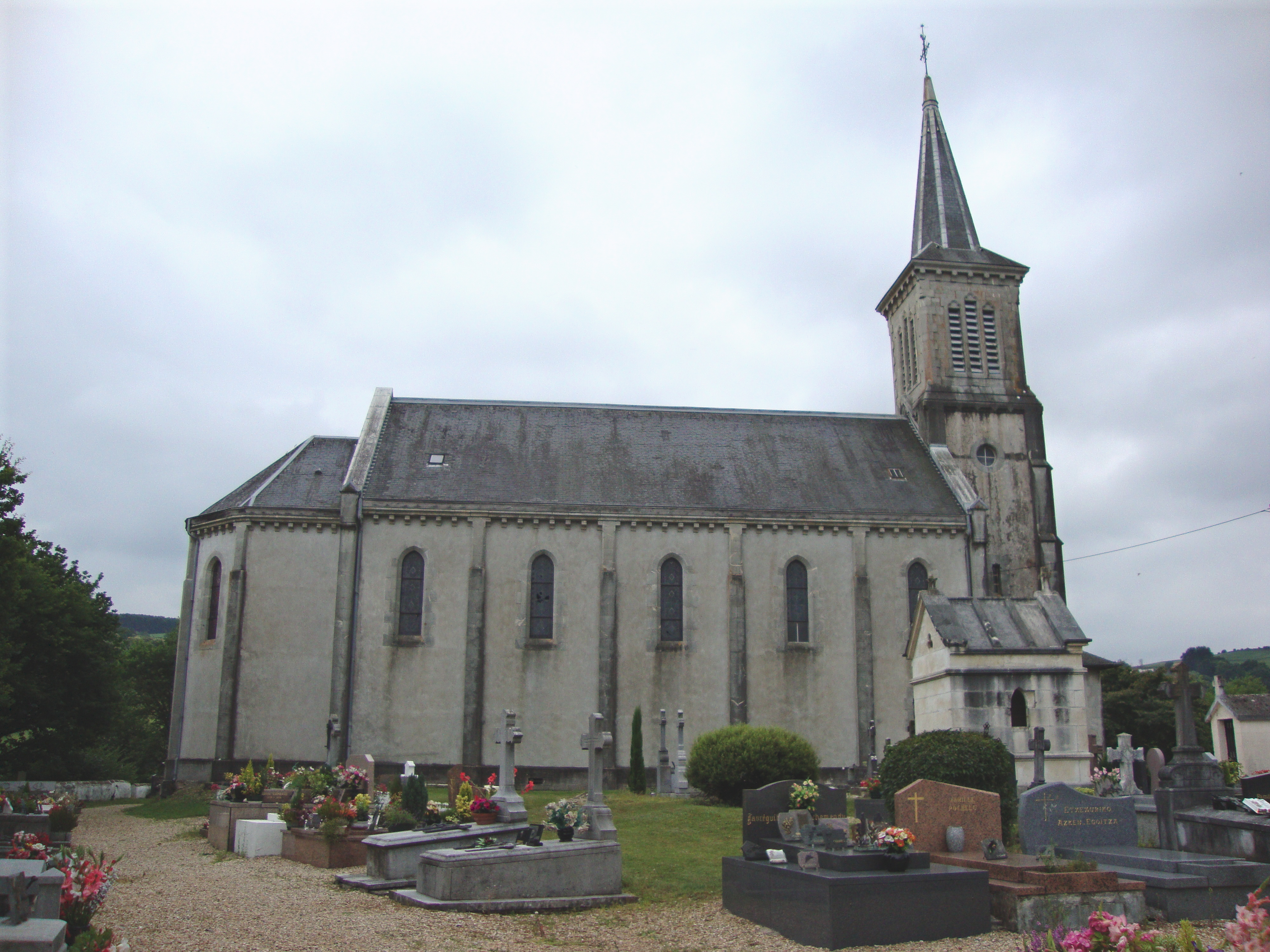 Bonloc (Pyr-Atl, Fr) église, vue latérale.